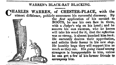 Advertising parody, satirical publication by William Hone aimed at English politician and judge Charles Warren (1764–1829). The point is that Warren had defected ("ratted") from the Whigs to the Tories, offered a judgeship; and Warren's Blacking, manufactured by Robert Warren, used a similar advertisement, which had also been engraved by George Cruikshank. (The rat wears a judge's wig, in the reflection in the boot.)